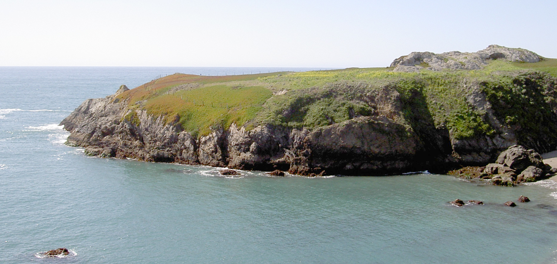 Duncan's Point viewed from the east